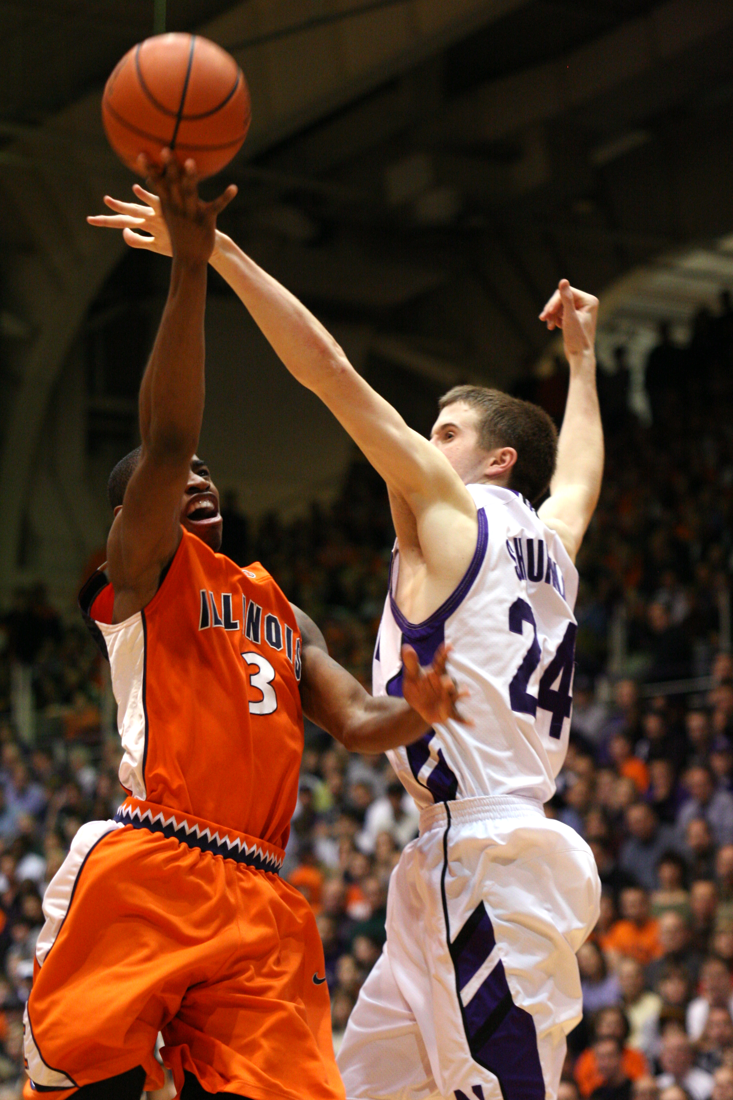 John Shurna defends against Brandon Paul